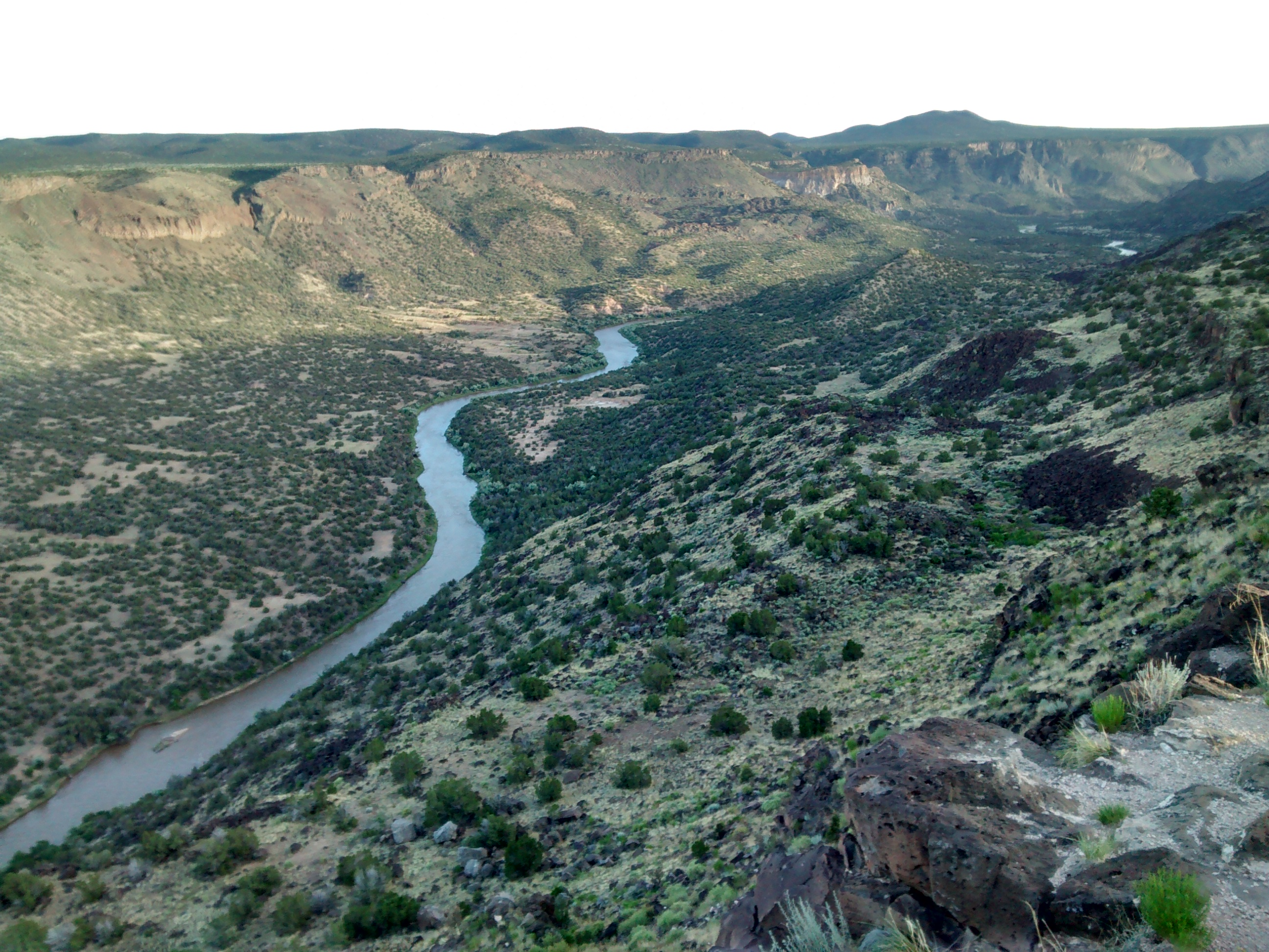 Rio Grande River at White Rock, NM